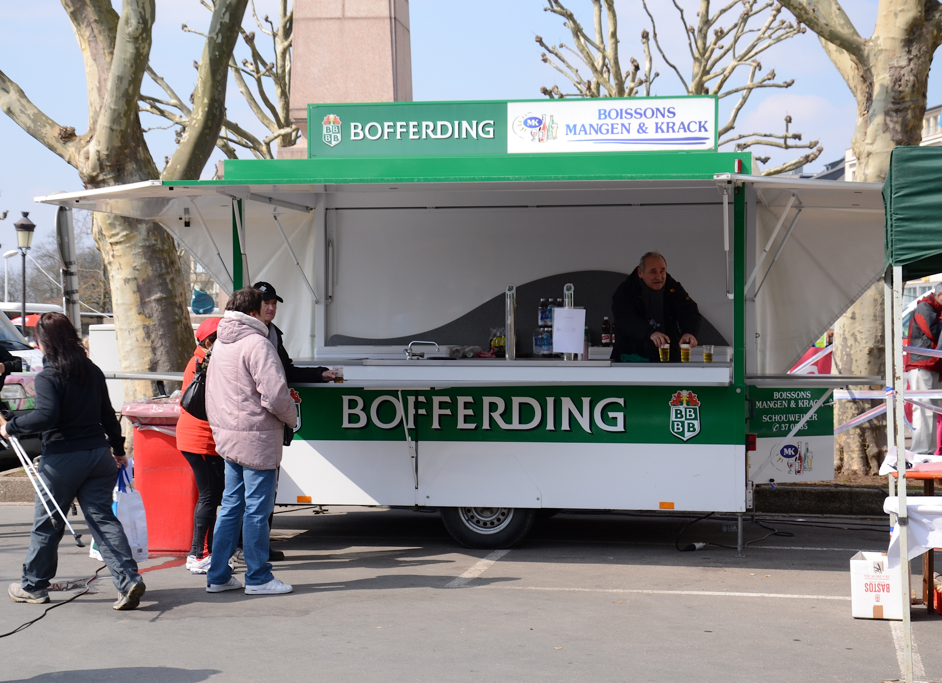 Bofferding beer trailer in Luxembourg City